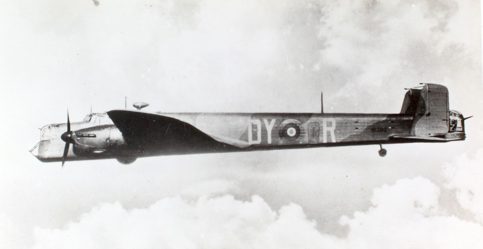 Image from the Charles Daniels Photo Collection album "British Aircraft." SOURCE INSTITUTION: San Diego Air and Space Museum Archive